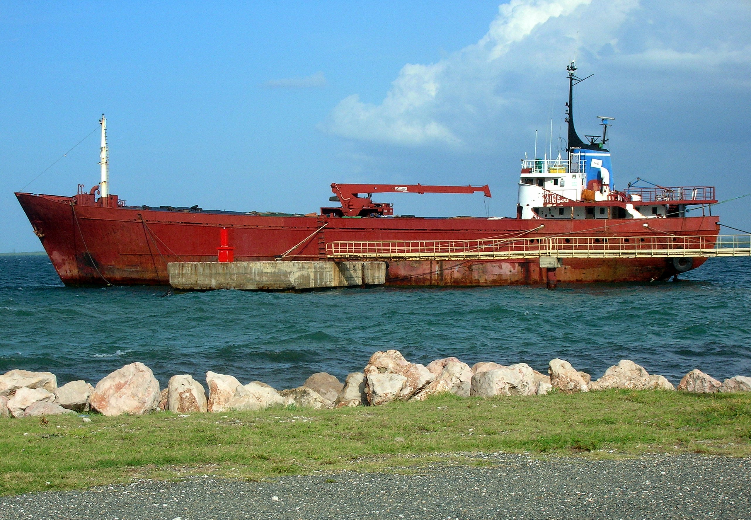 A general cargo ship moored in Cap-Haitien, Haiti. About 30 to 40 years old, it is now ready to be scrapped.